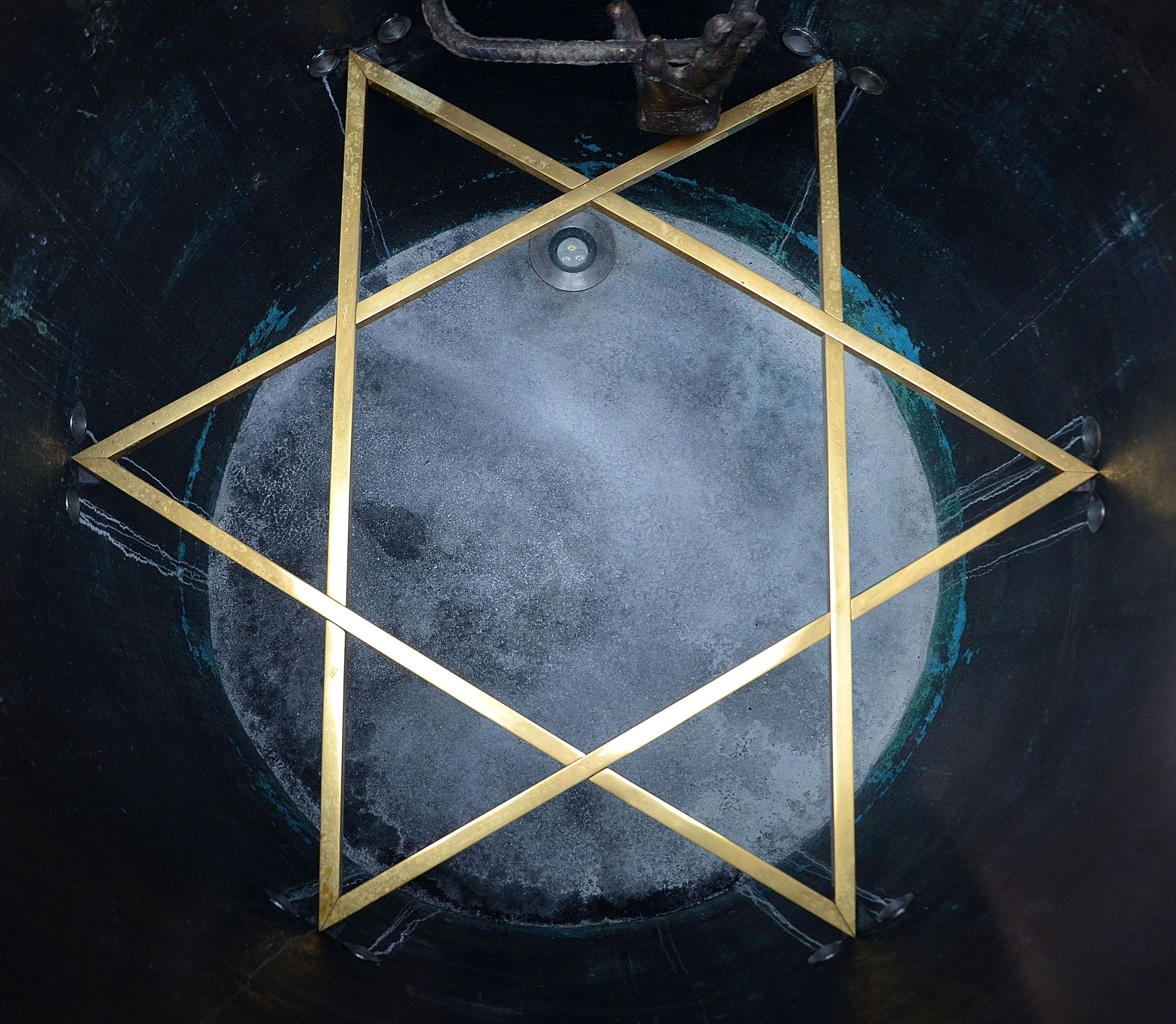 Monument to Evacuation of the Warsaw Ghetto Fighters at 51 Prosta Street in Warsaw